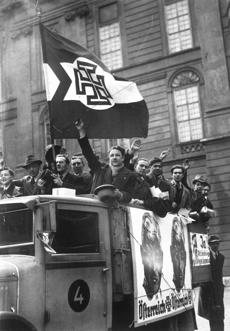 Truck with supporters of Austrian Chancellor Kurt Schuschnigg (pictured on the posters) campaigning to vote for the independence of Austria in a proposed March 1938 referendum (which did not take place as Austria was annexed by Nazi Germany on 13 March 1938)